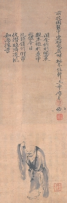 Fuke Zenji by Seta Kamon with comments by Unkyo Kiyo, Sakata, Yamagata, Japan